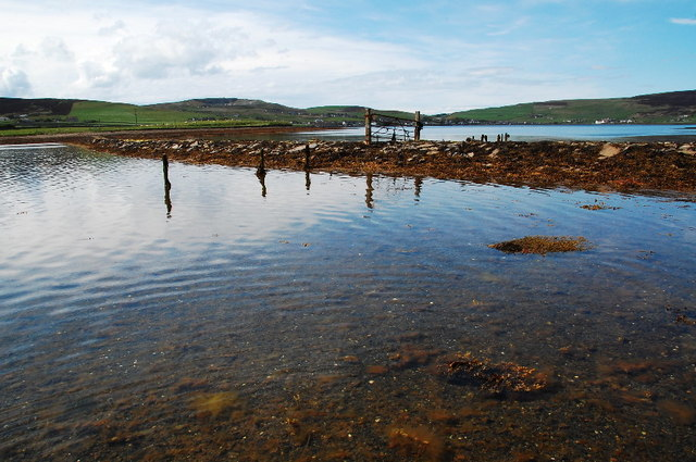 Gate on the causeway Looking in the direction of Finstown, at the far western end of the Bay of Firth.